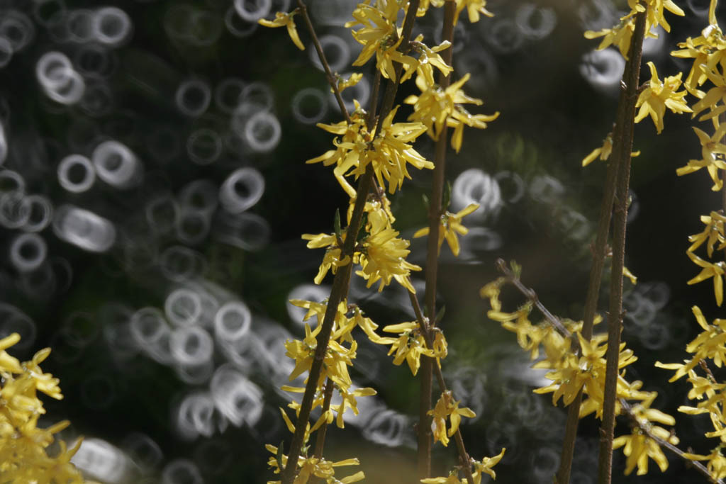 Demonstration of Bokeh, Part 1 Picture of Forsithia with bad background blur (Bokeh), due to the use of a catadioptric system. Focus on foreground. 500 mm 1:5,6 (Rubinar)